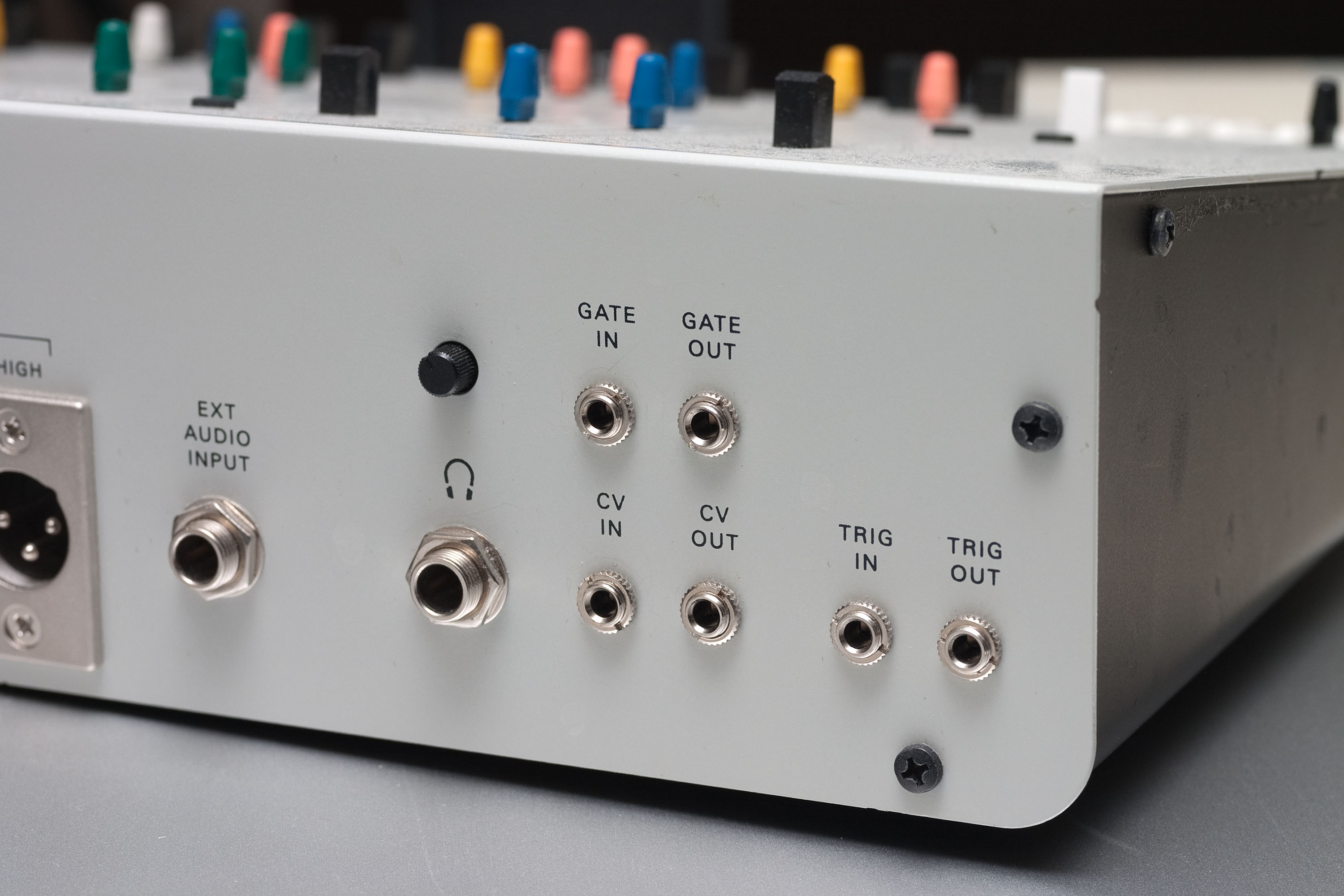 The CV/gate interfaces of a Korg ARP Odyssey